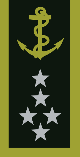 Work by Rama